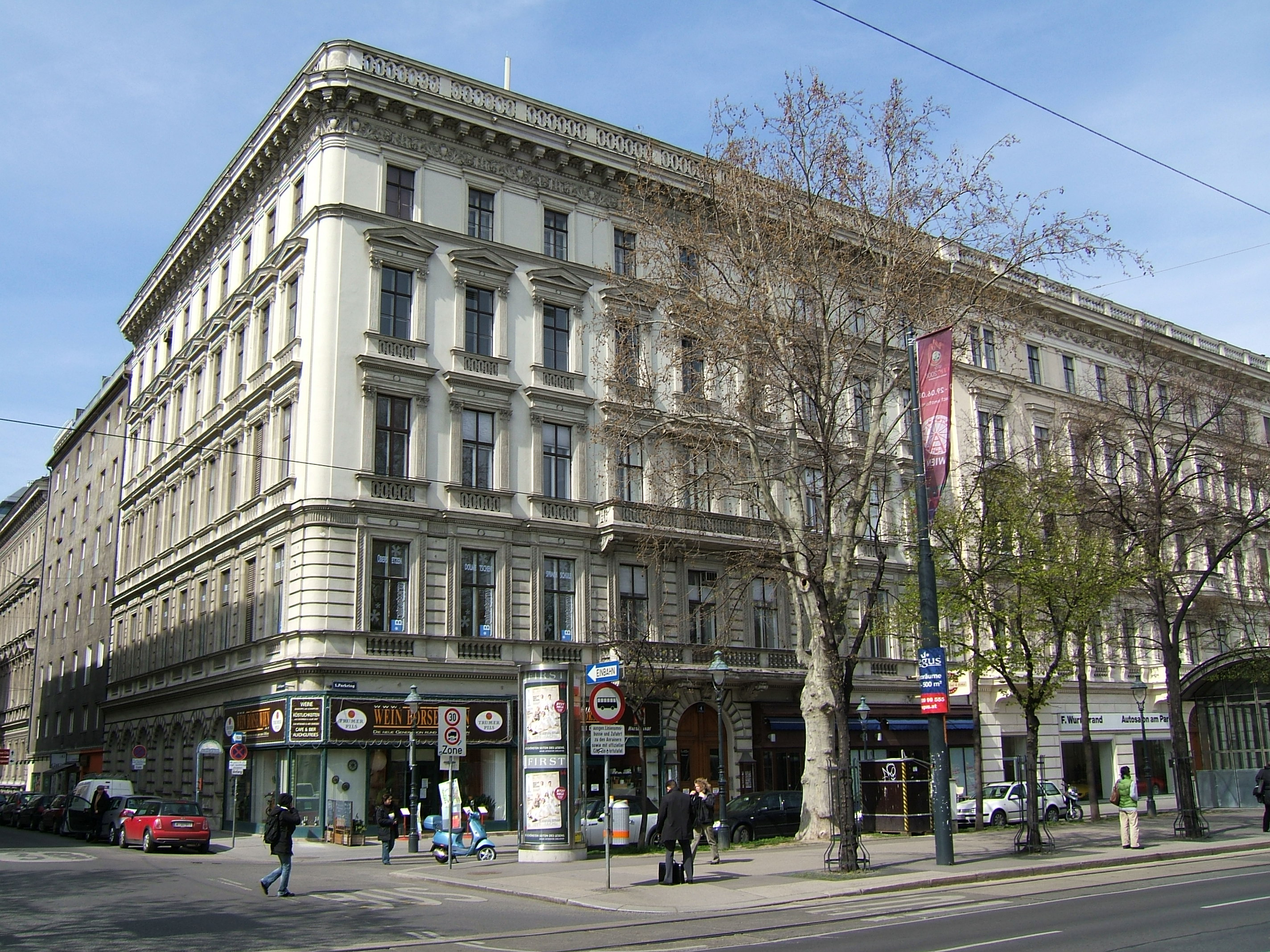 Palais Dumba in Vienna 1st district Parkring 8